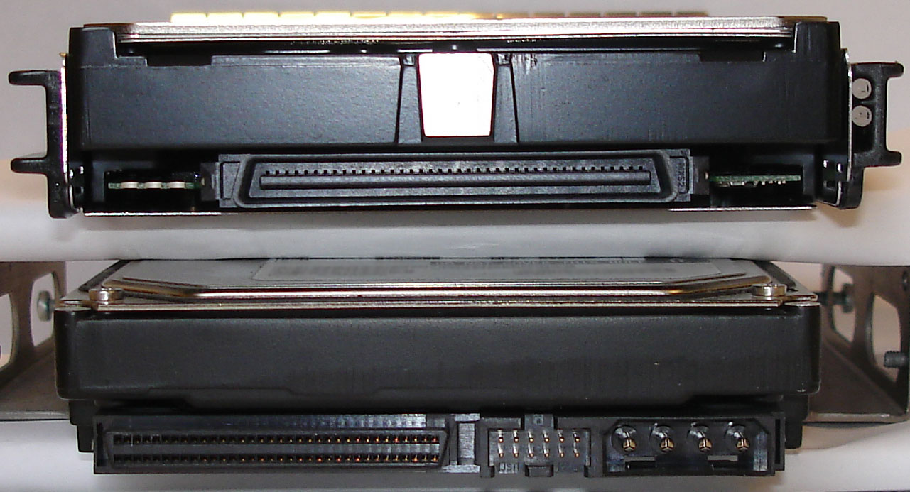 SCSI hard drives showing connectors: 80-pin SCA (top) and 68-pin (bottom). photo taken by me 17:27, 24 April 2006 (UTC)